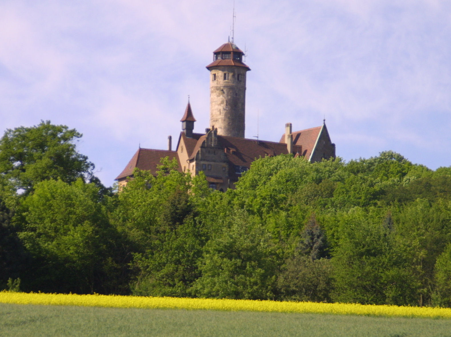 Altenburg (castle in Bamberg, Germany)